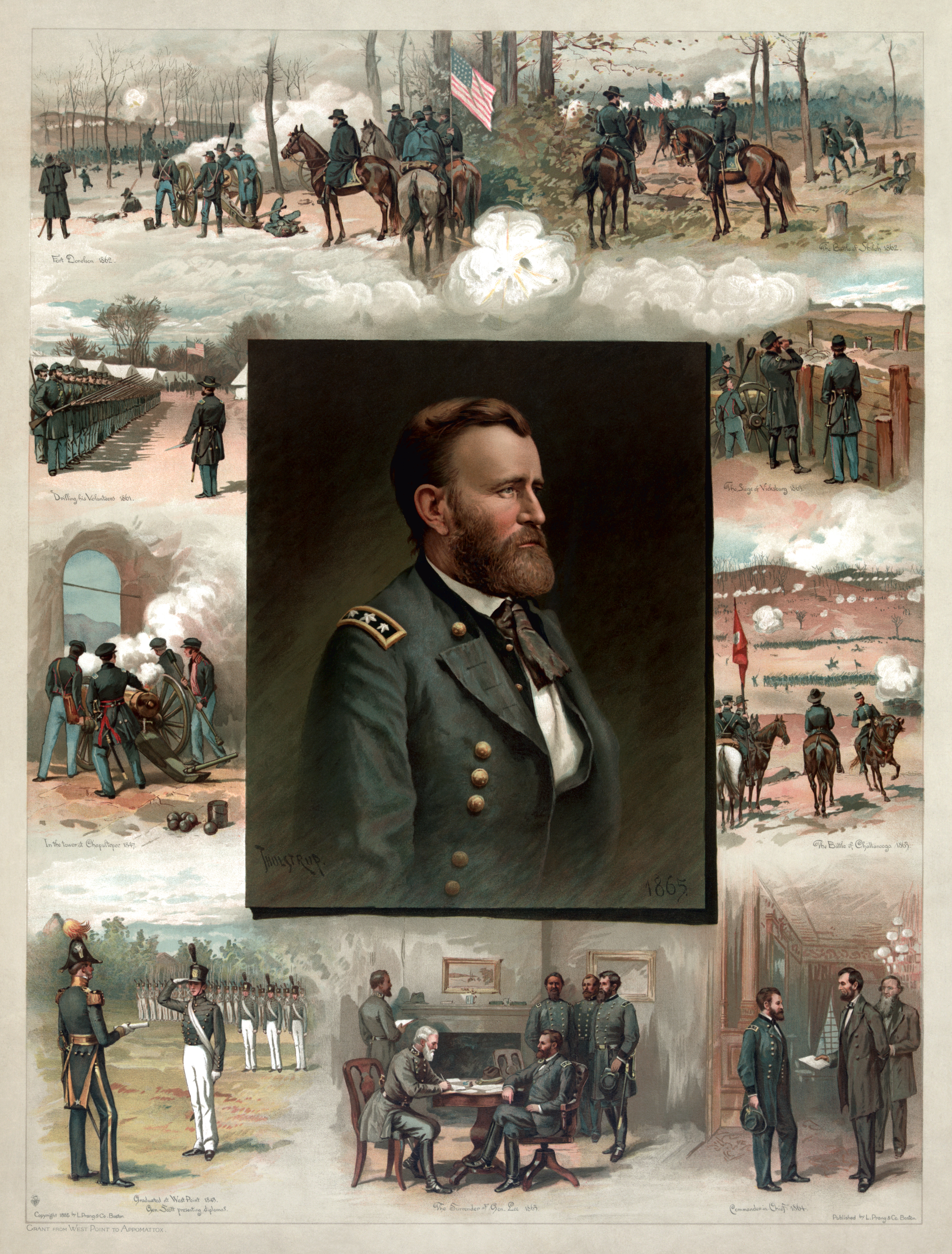 Grant from West Point to Appomattox, an 1885 engraving presumably intended to commemorate Grant's achievements after his death. A half-length portrait of Ulysses S. Grant is surrounded by nine scenes of his career from West Point graduation in 1843 to Lee's surrender in 1865. Clockwise from lower left: Graduated at West Point 1843 - Gen. Scott presenting diplomas In the tower at Chapultepec 1847 Drilling his Volunteers 1861 Fort Donelson 1862 The Battle of Shiloh 1862 The Siege of Vicksburg 1863 The Battle of Chattanooga 1863 Commander-in-Chief 1864 The Surrender of Gen. Lee 1865